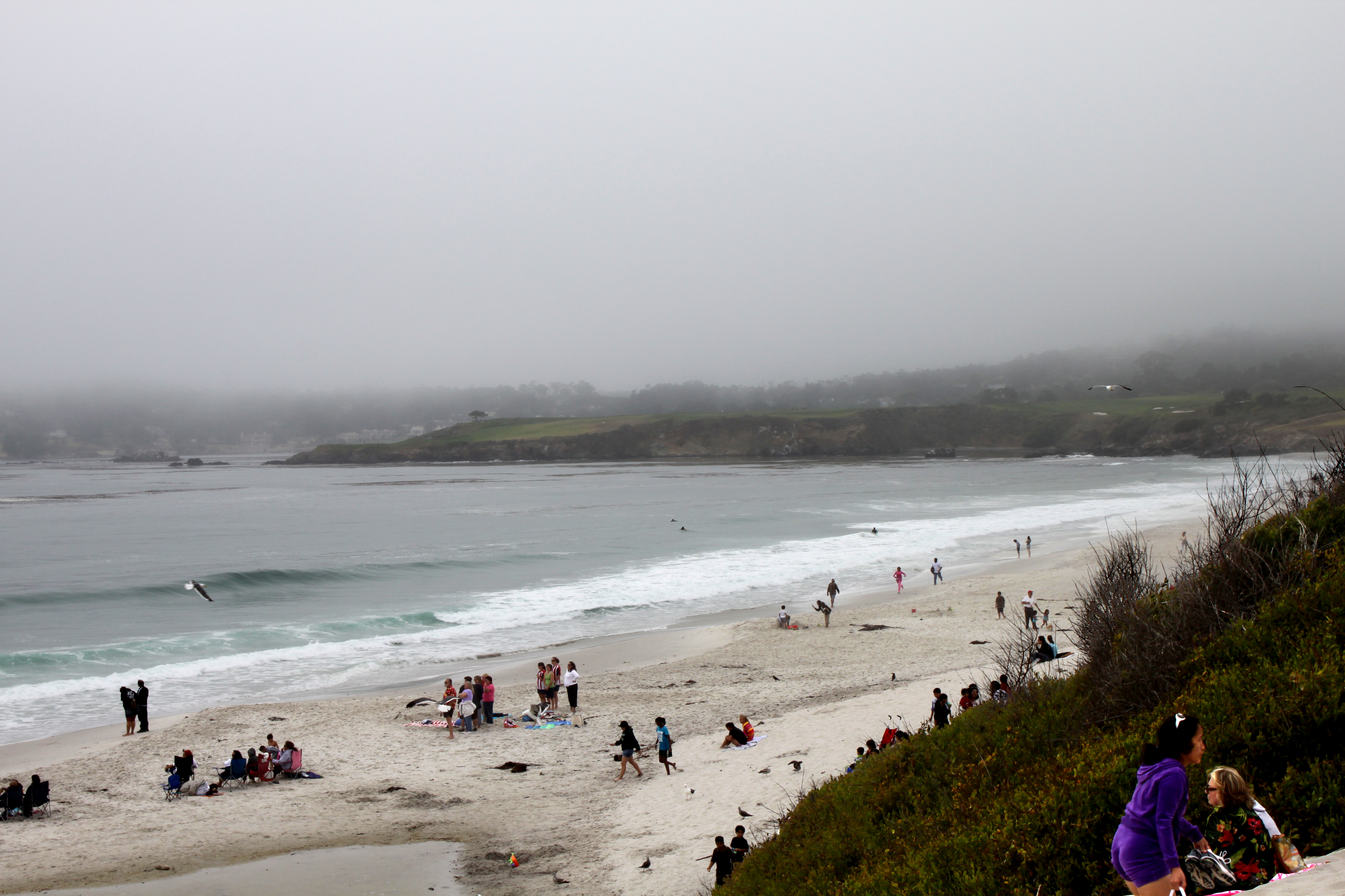 The beach on a foggy day at Carmel-by-the-Sea, Monterey County, California.